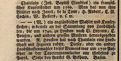 Extract from the 1779 Füssli's AKL, page 154 about CHATELAIN : we can see two artists mentionned, but a third one is underscored...